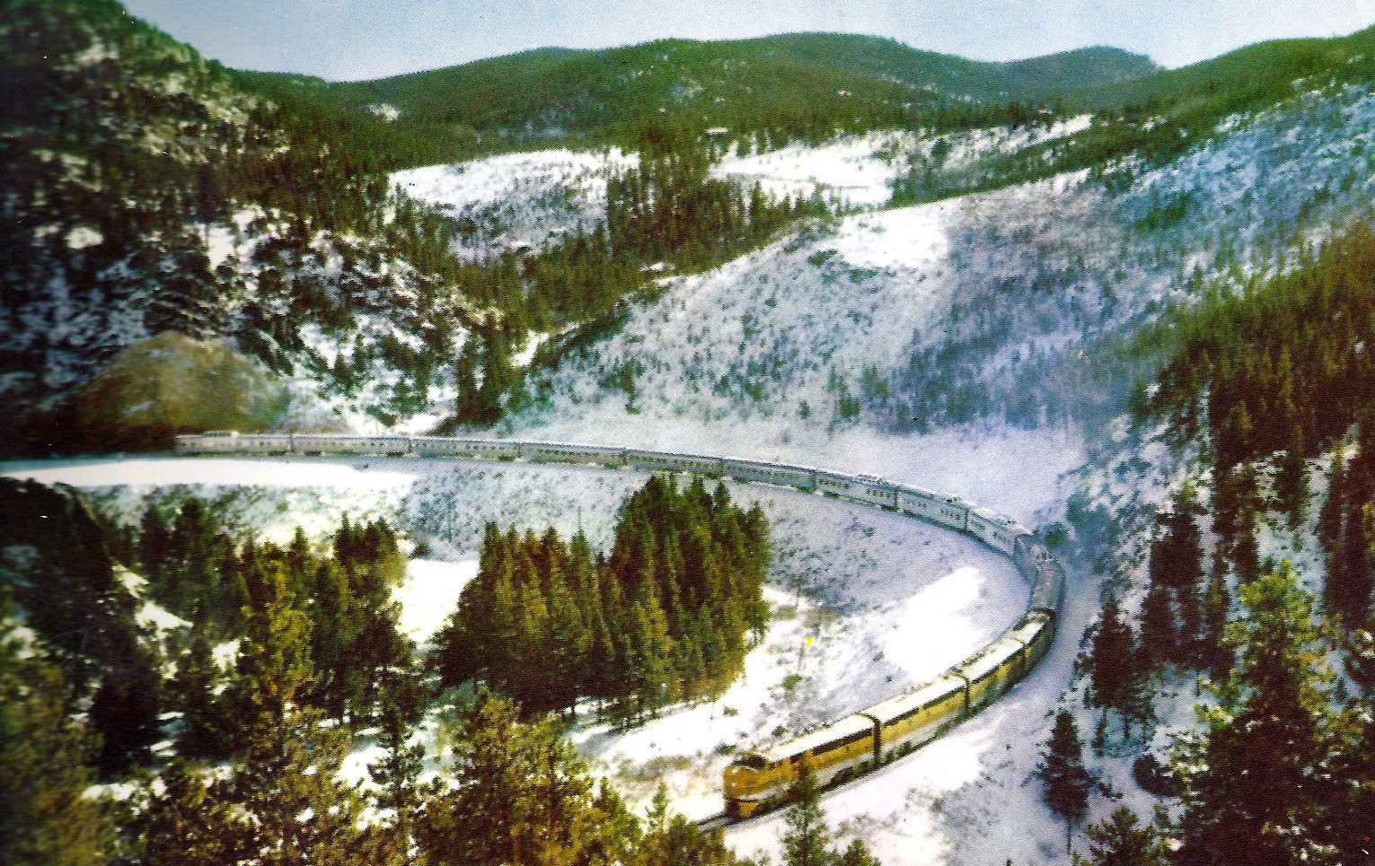 Postcard photo of the California Zephyr in the Colorado Rockies in winter. The train is headed by Rio Grande locomotives for this leg of the trip.